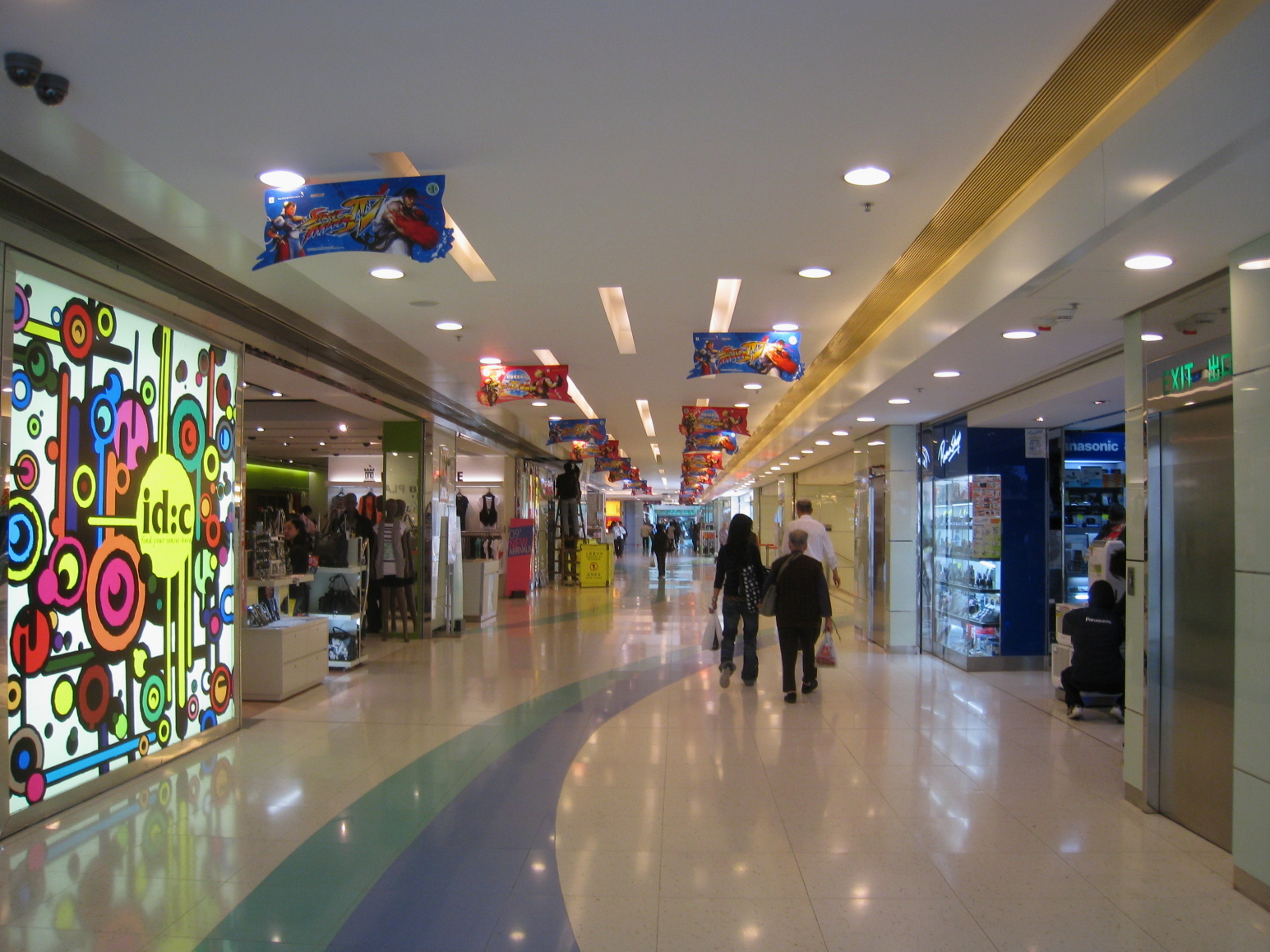 Trend Plaza North Wing Level 3 Access